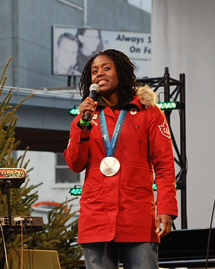 Olympic bobsled athlete Shelley-Ann Brown at Earth Hour Unplugged 2010